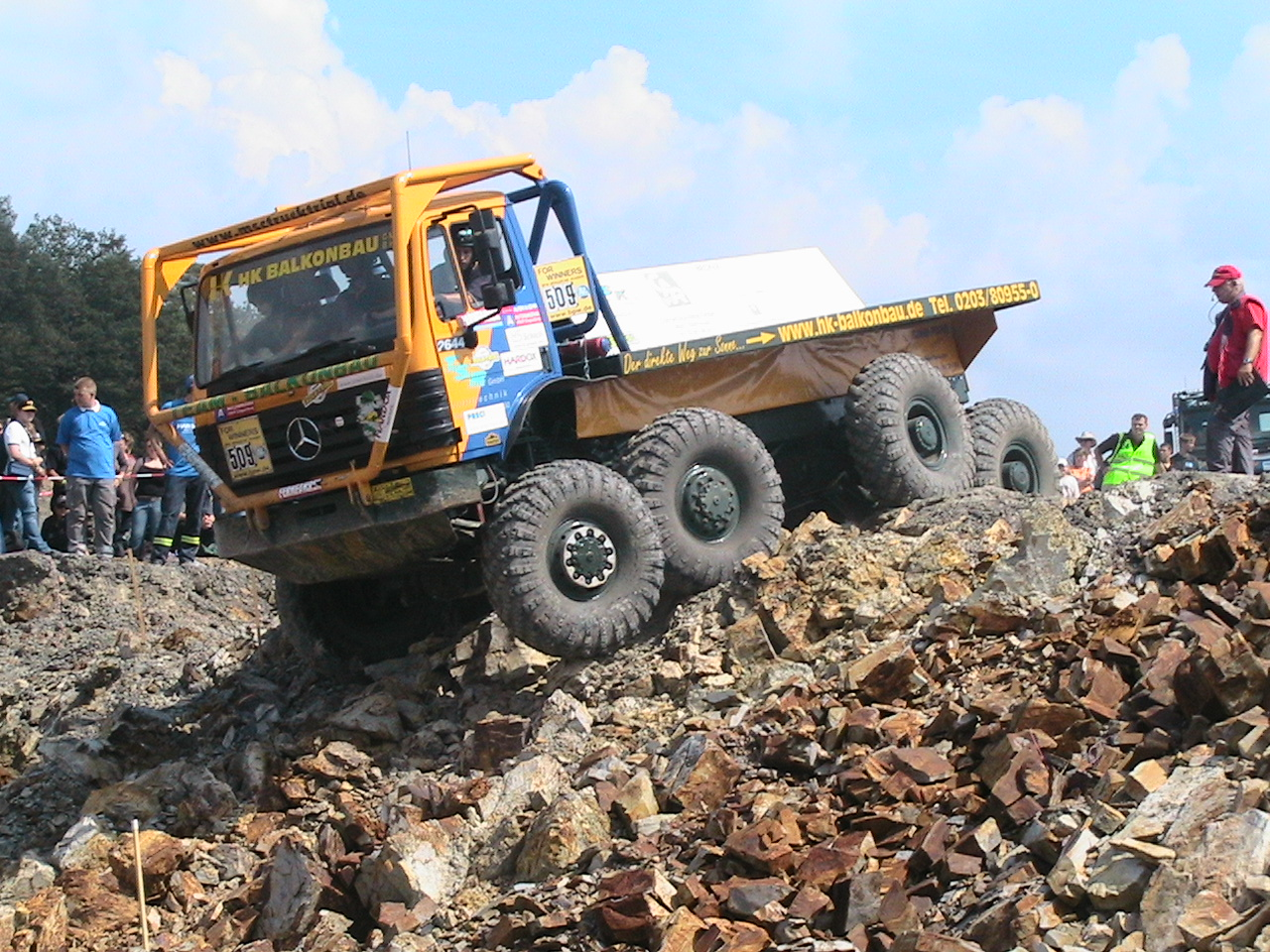 European Truck-Trial Championship 2006 in Osnabrueck (Germany), class S5.